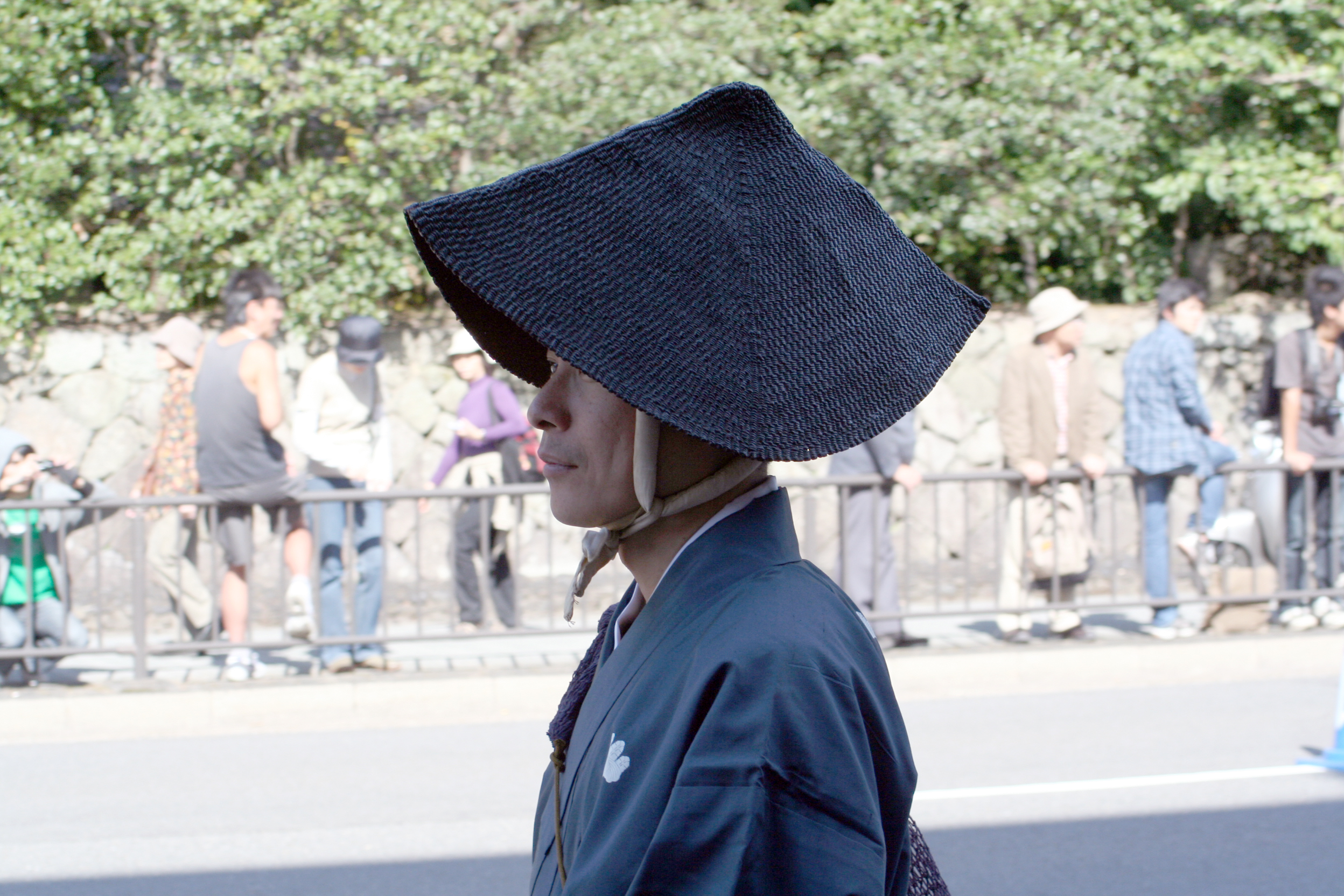 京都府京都市にて開催された時代祭。正午の御所から平安神宮までの行進の様子。2009年10月22日撮影。(Held at the Kyoto City, Kyoto jidai Matsuri. The appearance of the marching at noon, the Imperial Palace to Heian shrine. Taken October 22, 2009.)